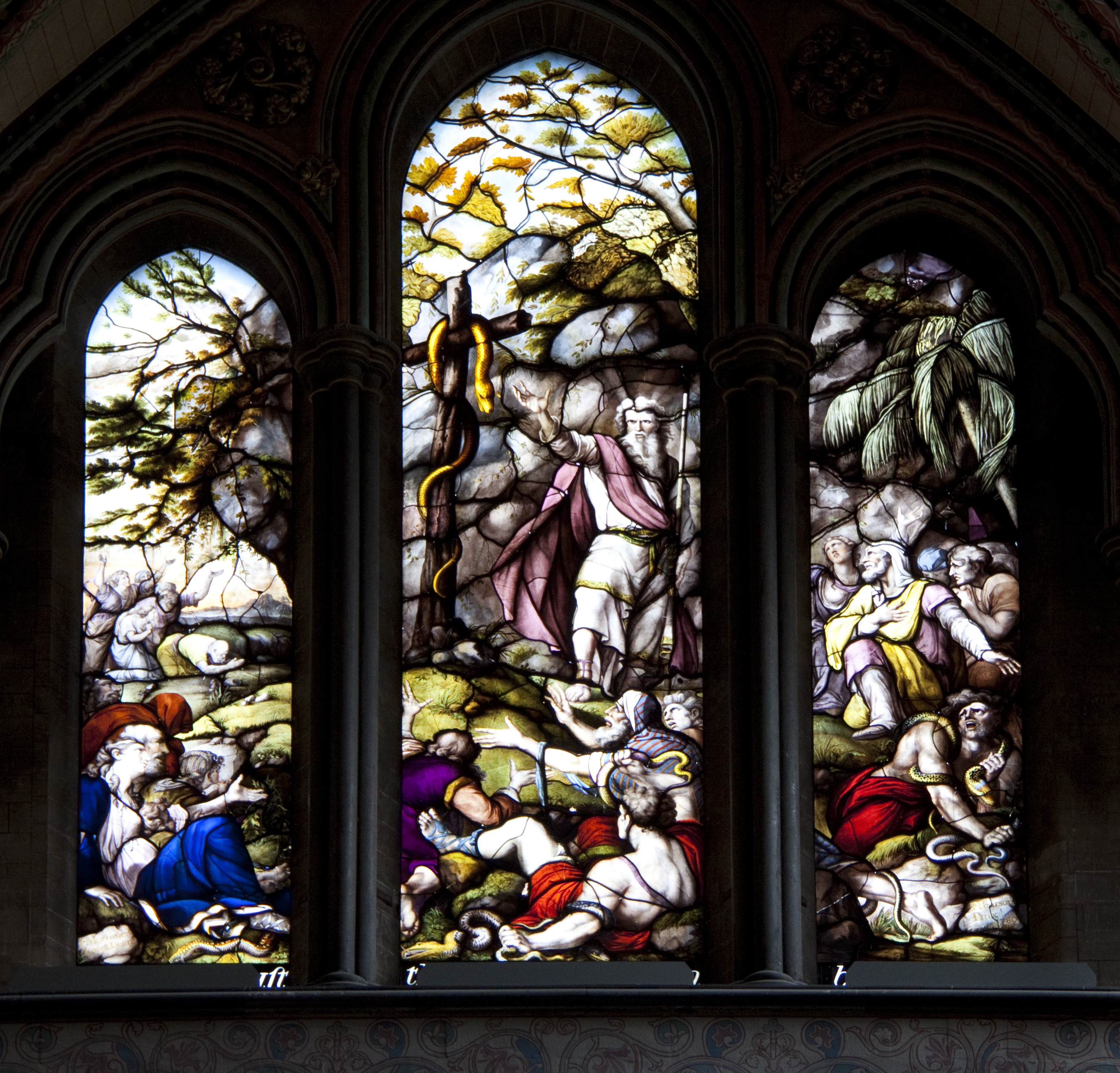 Foundations laid April 25, 1220. Consecreated 1225, 1258 and when completed in 1266. Cloisters and Chapter House circa 1270-79. Chapels flanking Lady Chapel built in 1464 and 1481 destroyed in 1789. Tower enlarged by 2 stages and spire added since 1330. Restored by James Wyatt from 1789